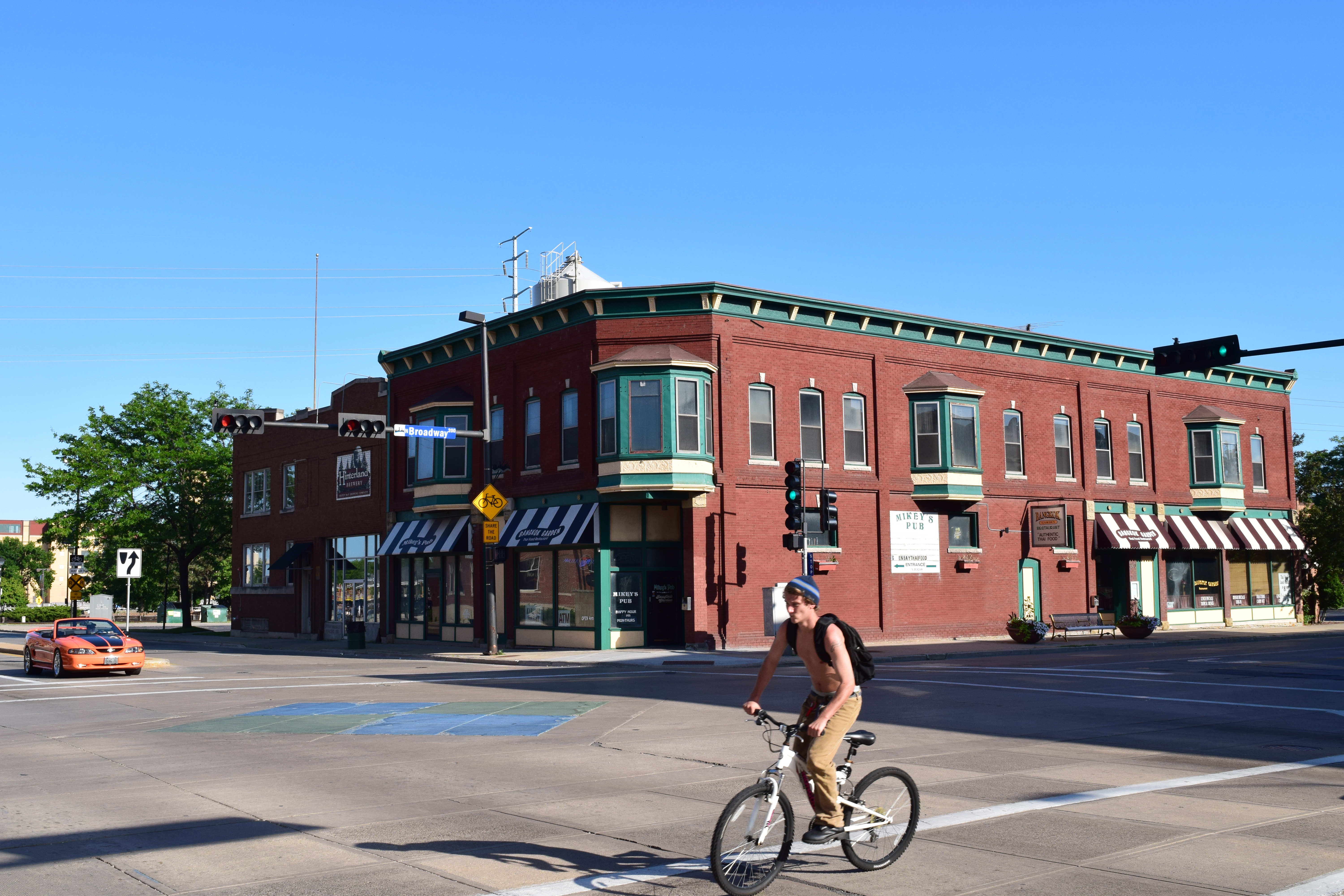 The Felix DuChateau Saloon in Green Bay, Wisconsin. The building is part of the Broadway-Dousman Historic District.